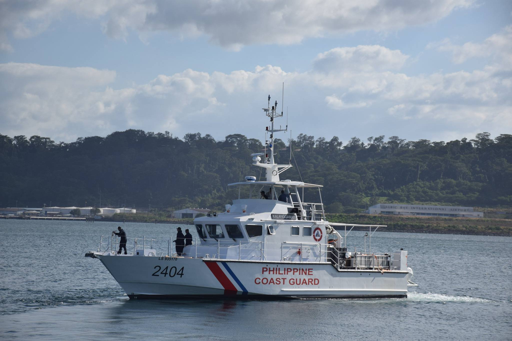 Owned by Philippine Coast Guard and it is public domain. BRP Kalanggaman (FPB 2404), one of the Two more 24-meter Fast Patrol Boats (FPB) arrived in Subic Port last December 6, 2018.